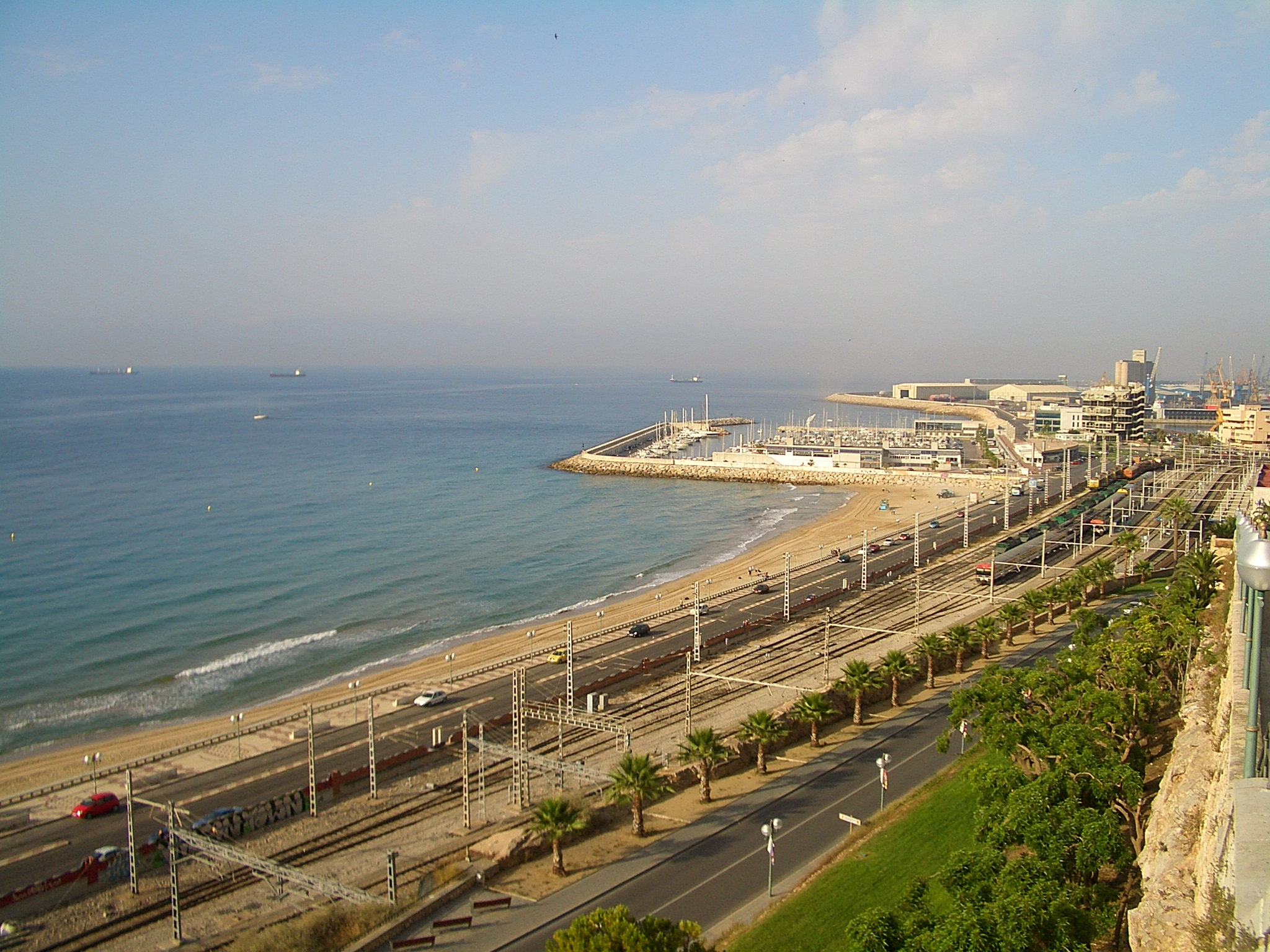 Tarragona Harbor